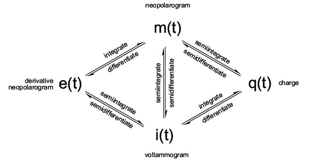 relations between neopolargrams and voltammograms